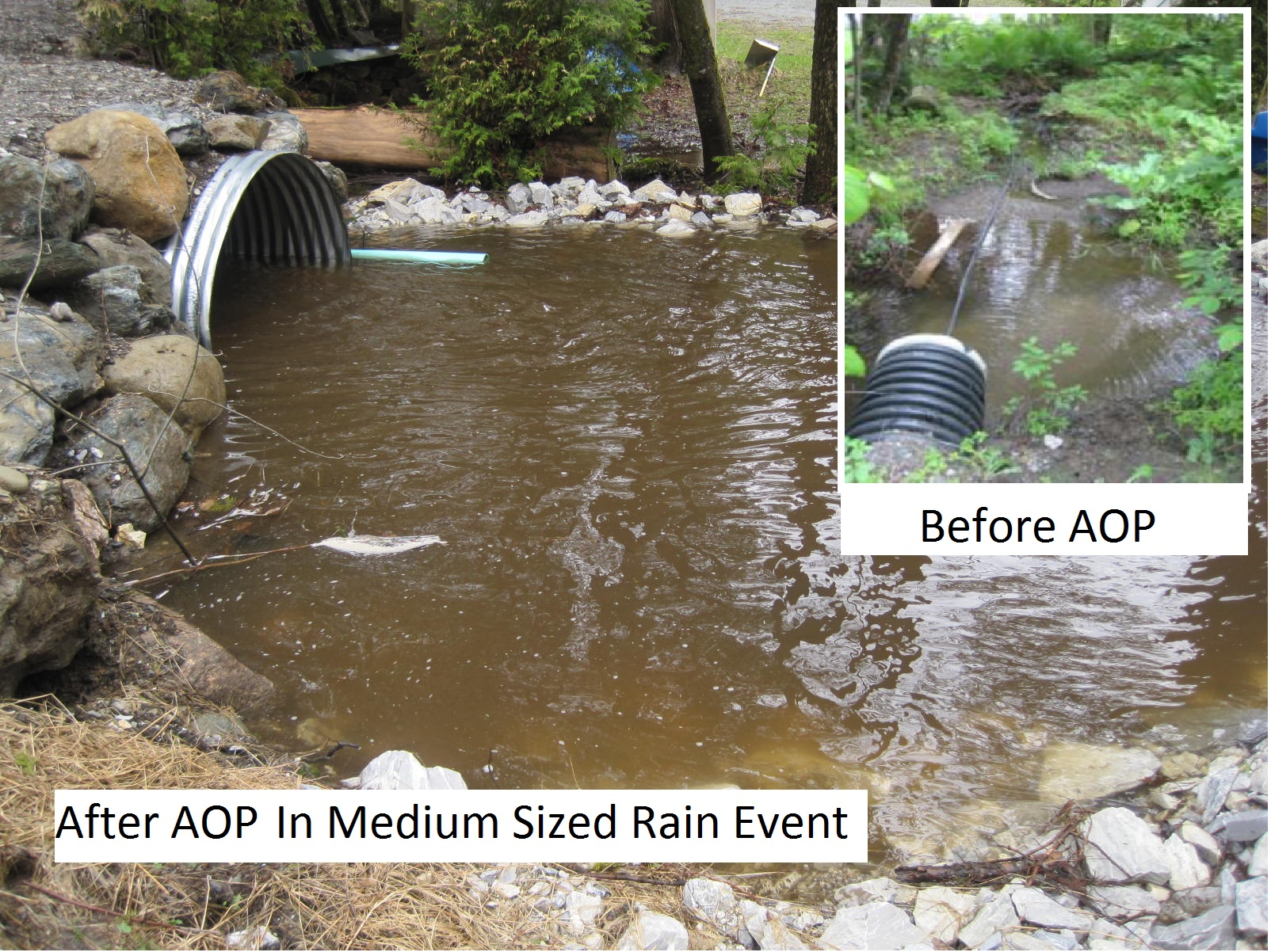 Culvert replacement for Aquatic Organism Passage, Franklin, Vermont. 2010 Lake Carmi Watershed Assessments